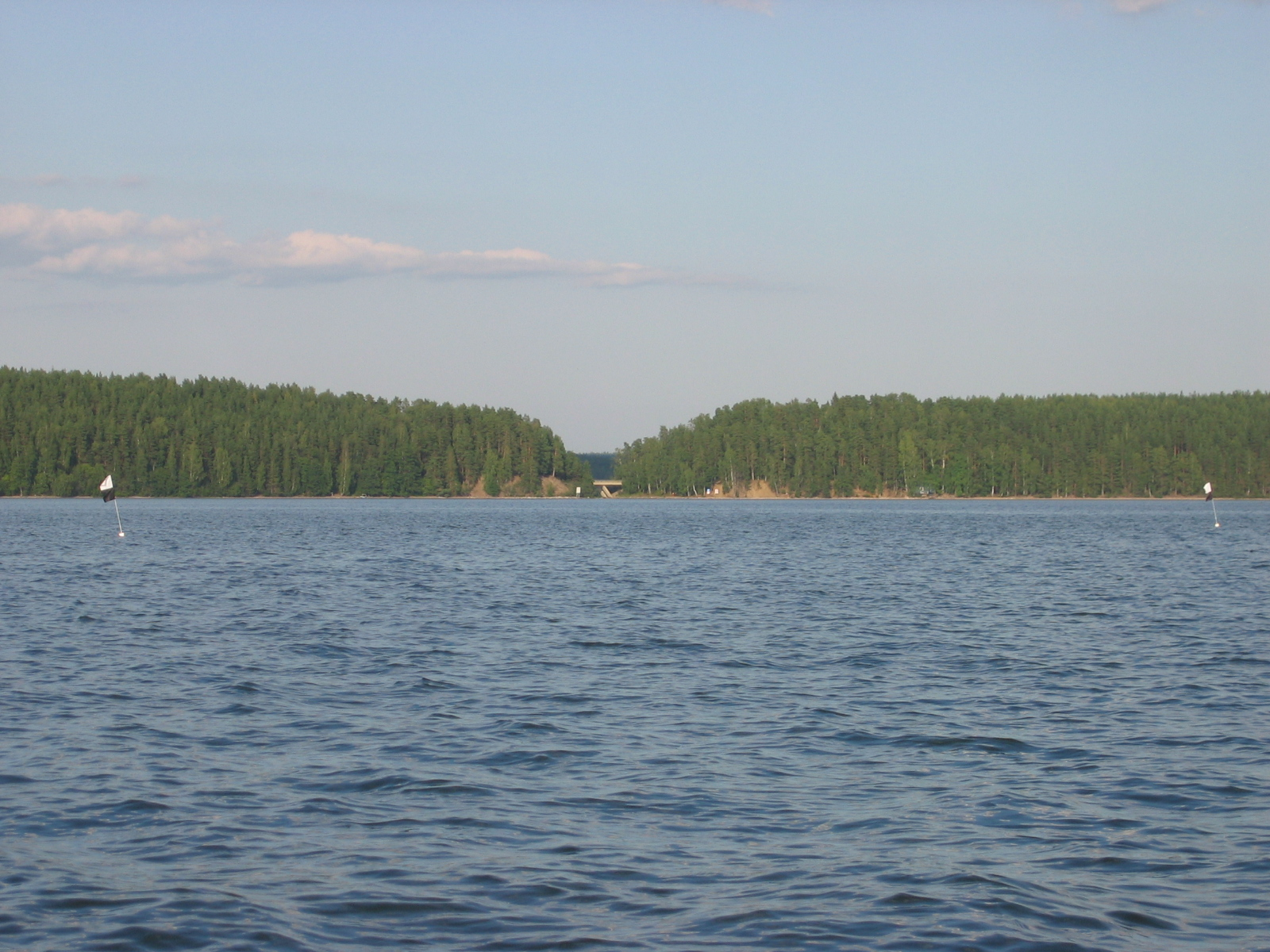 Kaivanto Canal in Kangasala, Finland